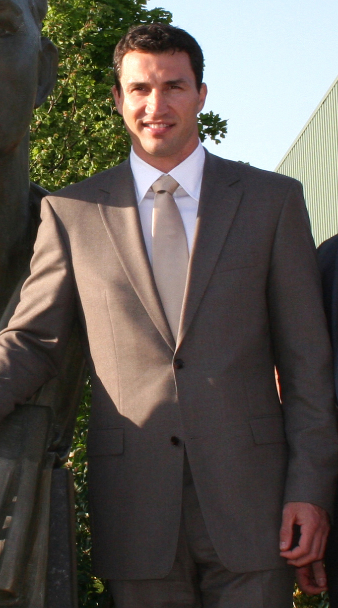 Wladimir Klitschko in Hollenstedt, Lower Saxony, Germany.